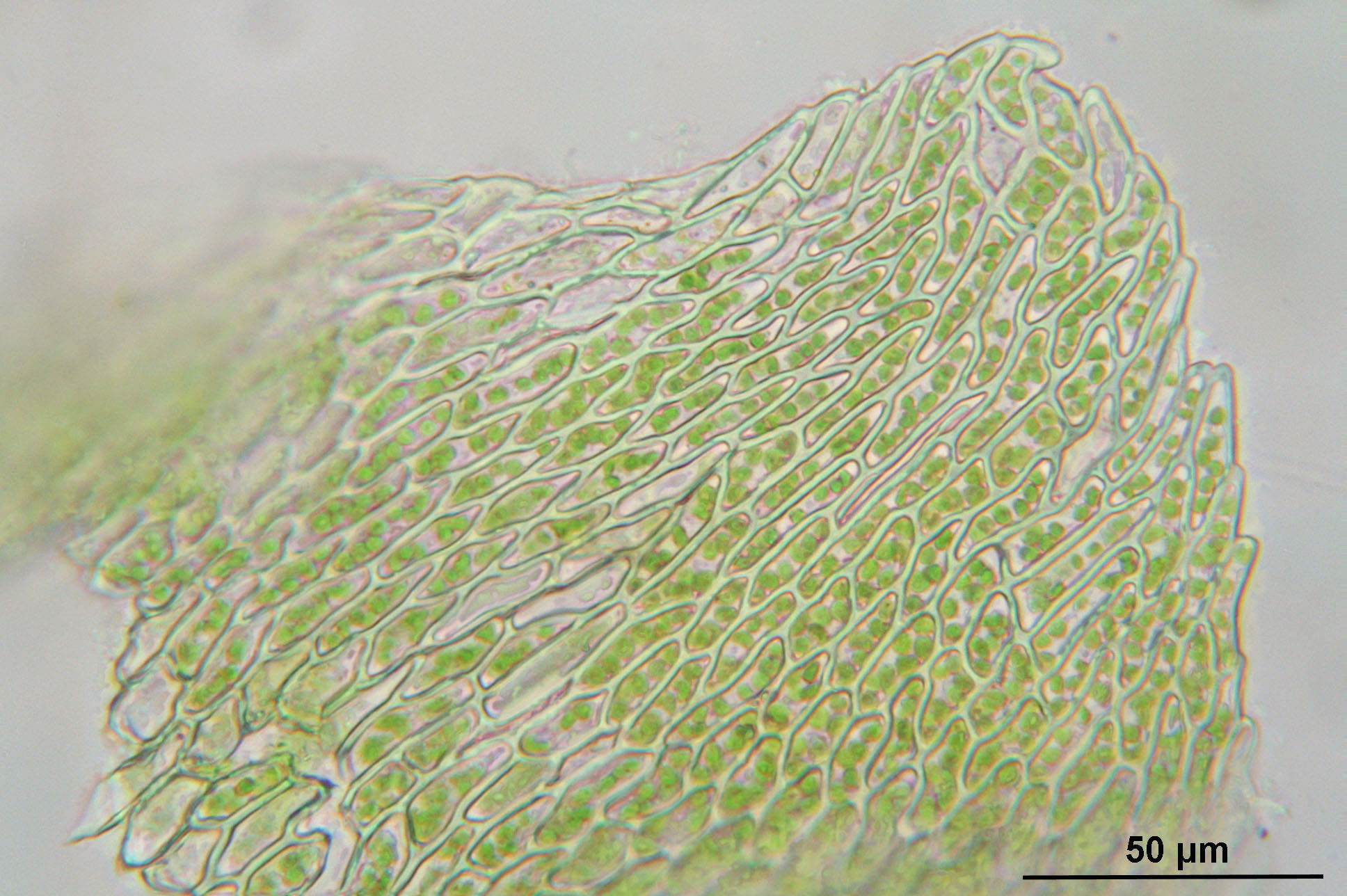 Hypnum procerrimum